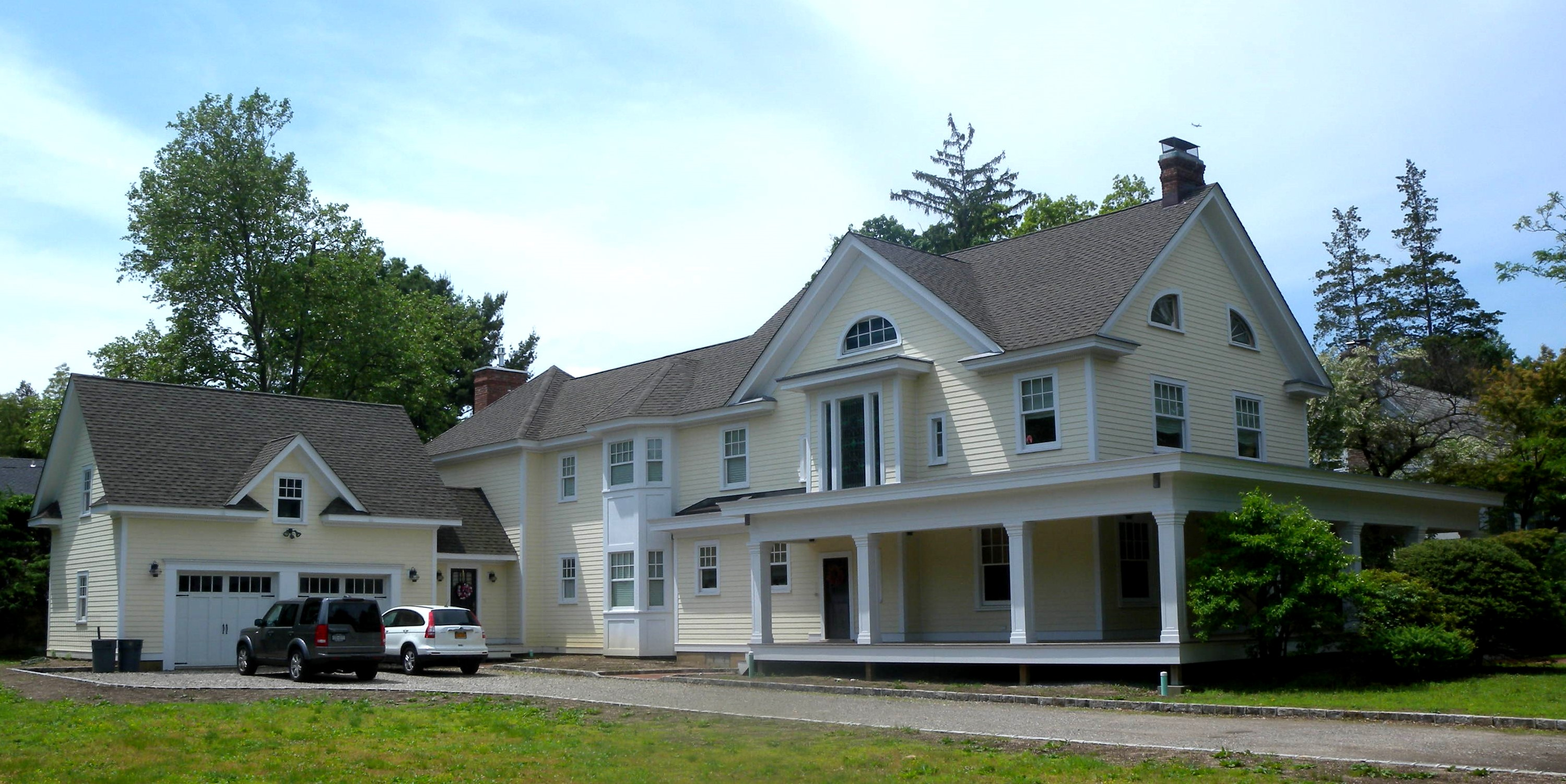 Looking southwest from South Lane at Almeron and Olive Smith House on a mostly sunny day.